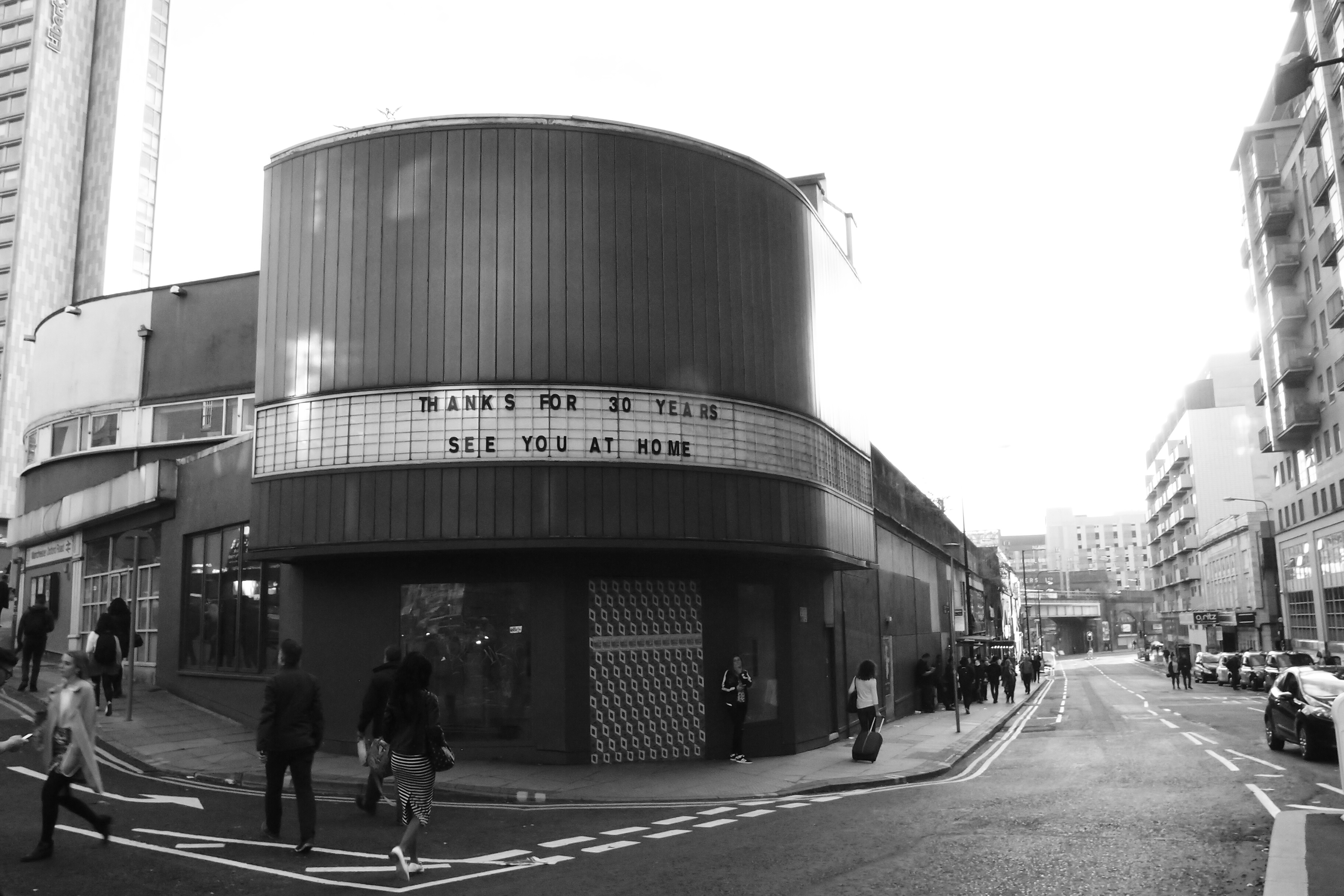 2016 Manchester